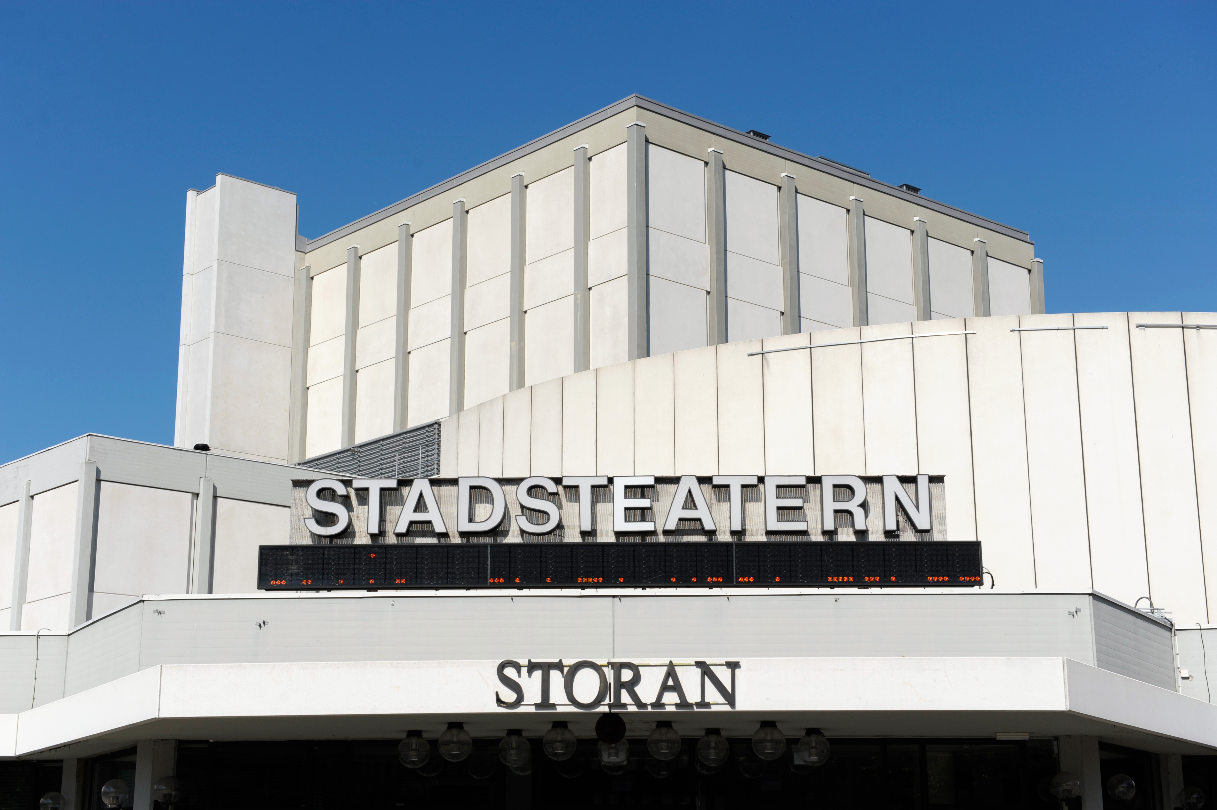 Stadsteatern i Helsingborg Sverige Keywords: Culture, Acting, Sweden